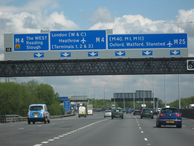 M25 Motorway Clockwise. Junction 15 Slip Road For M4